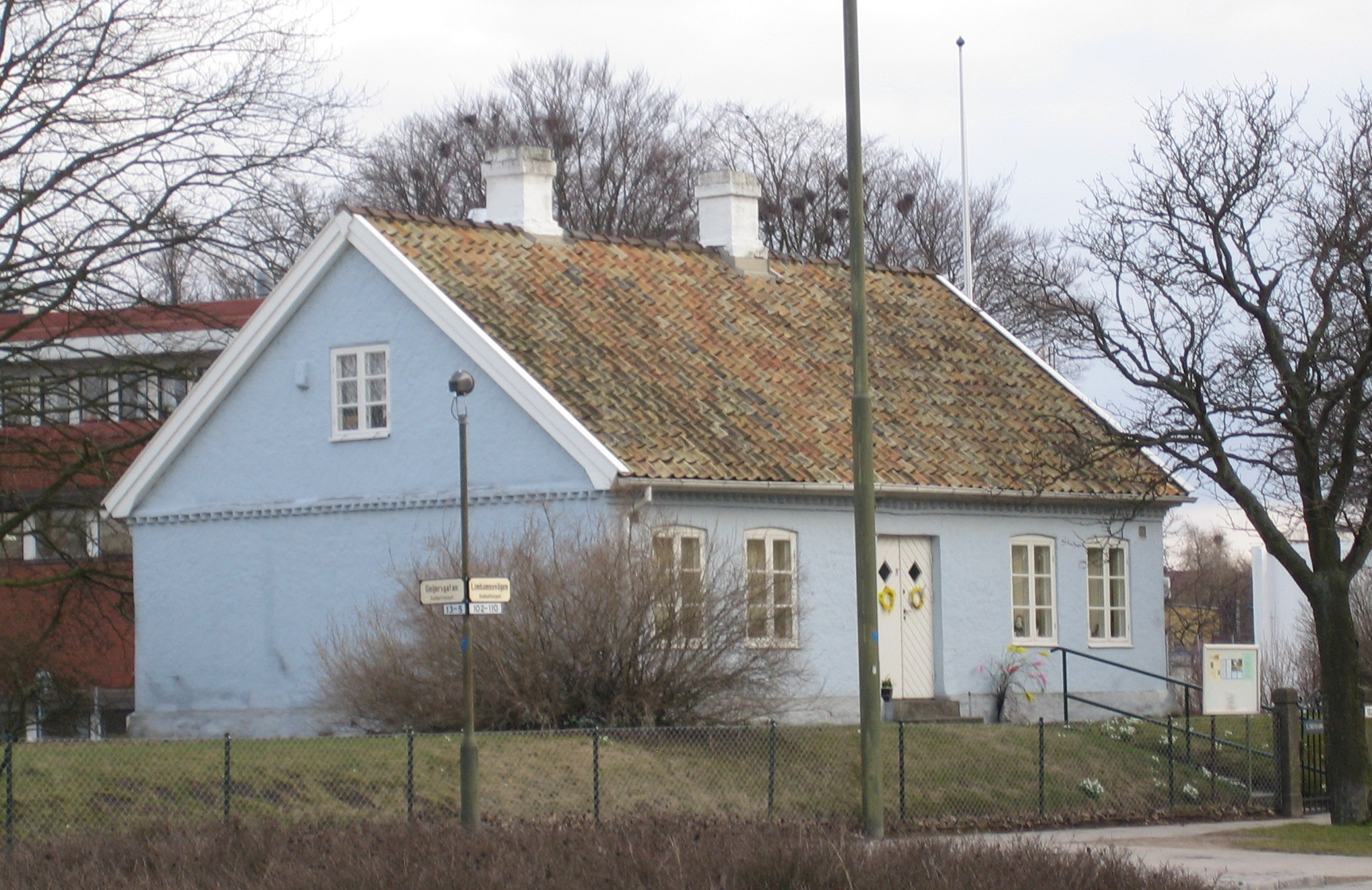 The Limhamn museum, an old soldier cottage in Malmö, Sweden.